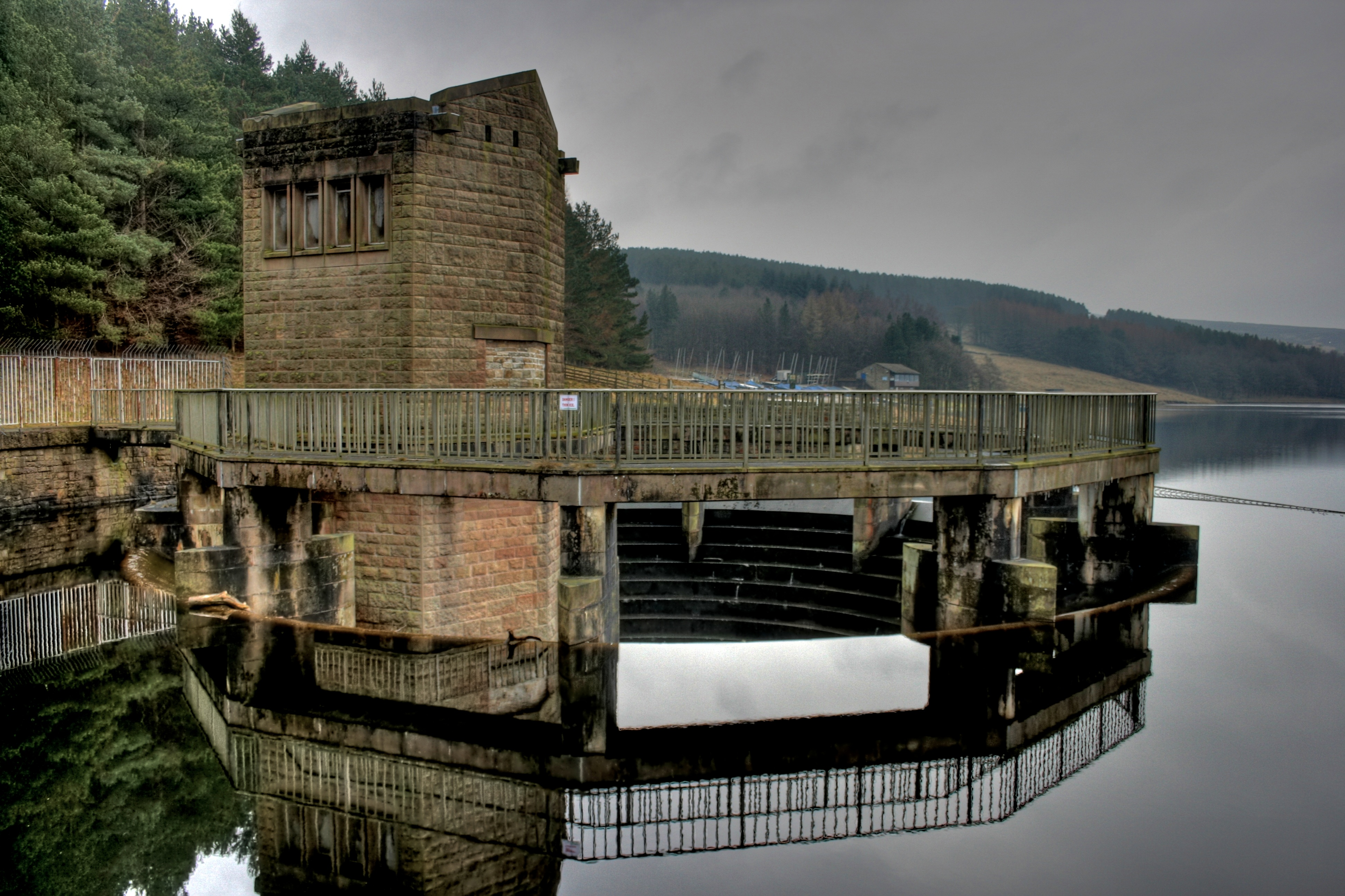 Errwood reservoir overflow system.